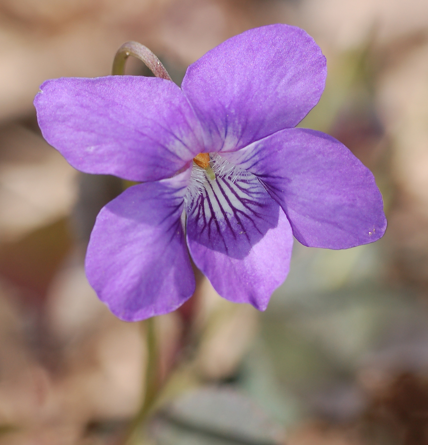 Photograph of a flower of the Alpine Violeten (Viola labradorica en ). Photo taken at the Mt. Cuba Center where it was identified.